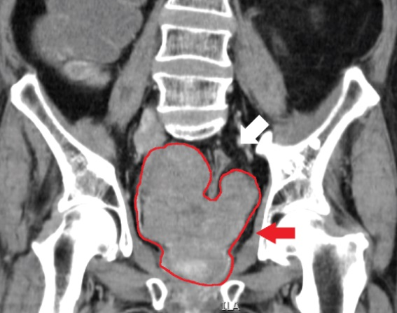 CT scan of prostate cancer in a 73-year-old man.